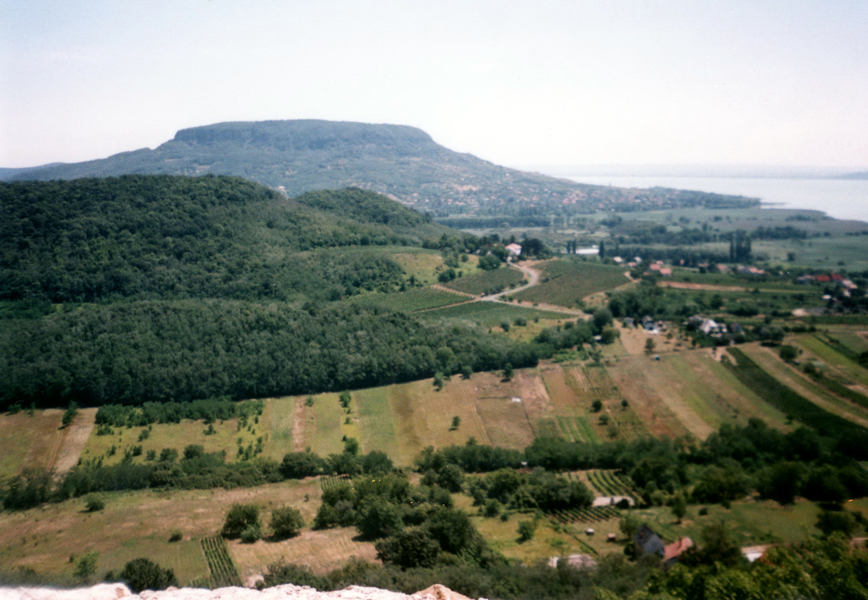 Badacsony as seen from Szigliget